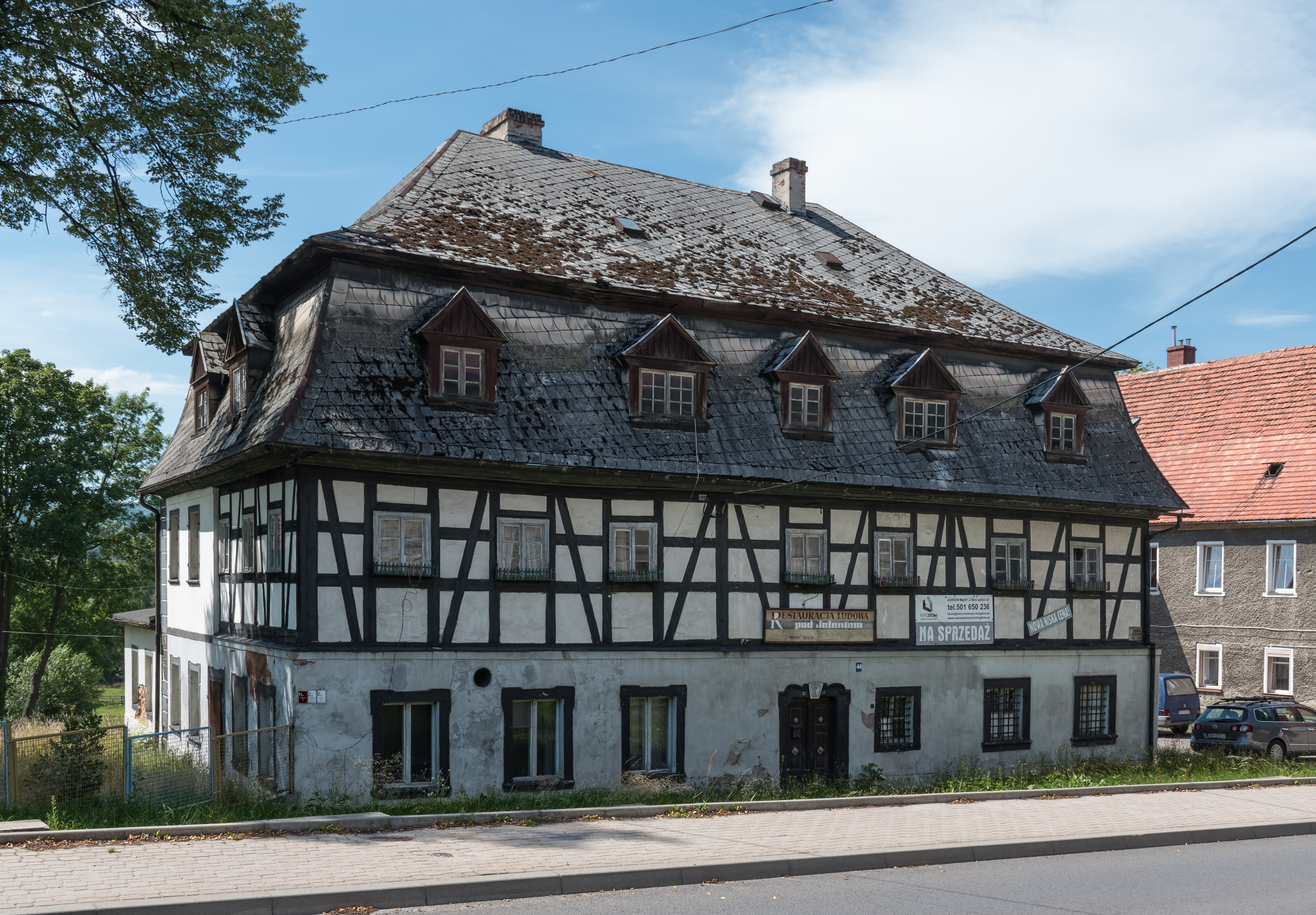 Pod Jeleniem inn in Głuszyca